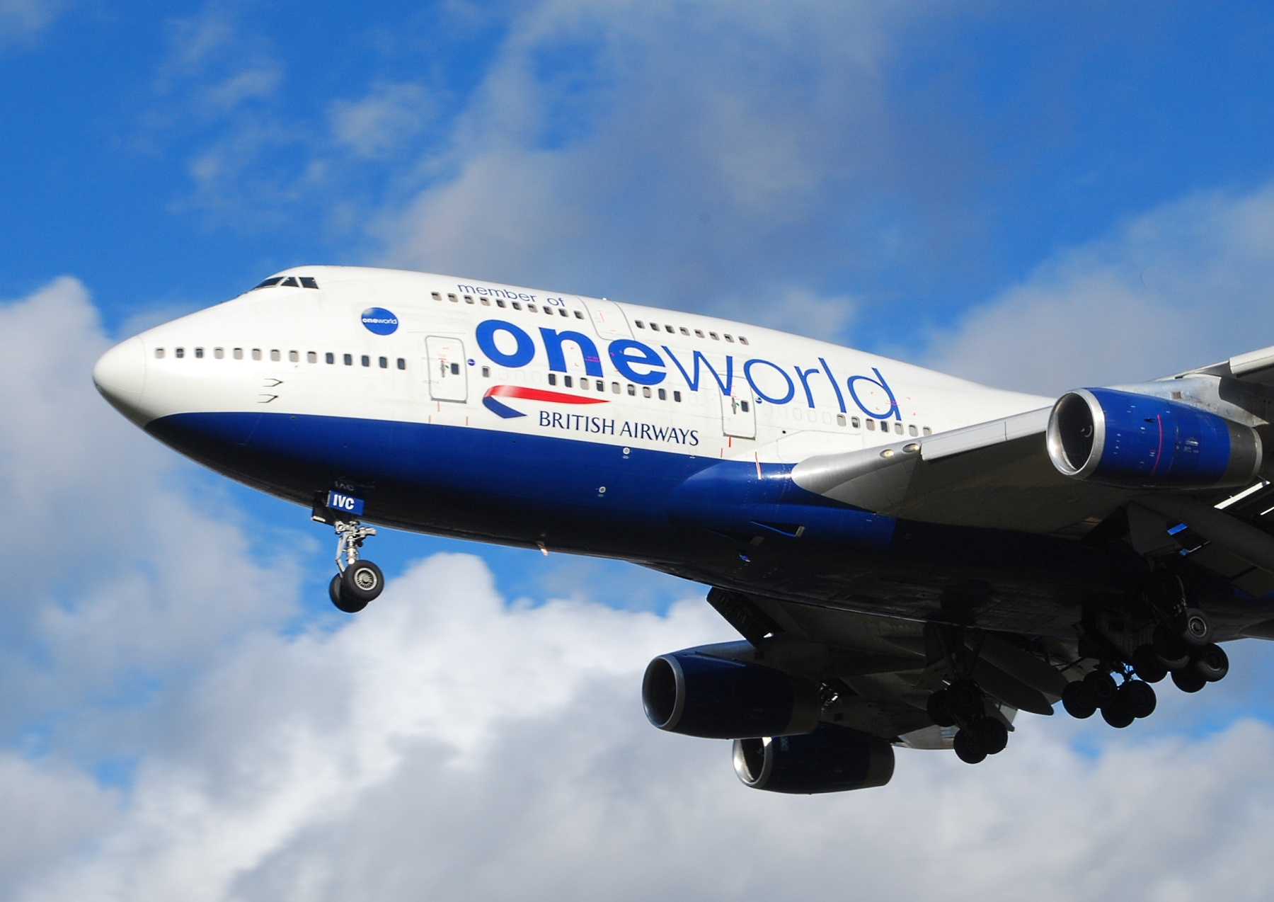 on finals at Heathrow